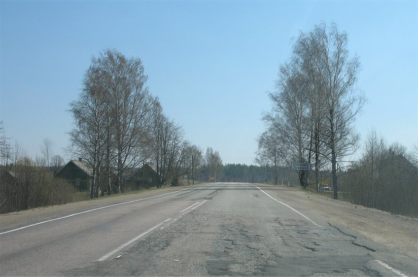 E95 i.e. M20 highway in Zyjkovo, Pskov oblast, Russia. (As local friends told me: The quality/ standard of this road, starting from from St. Peterburg and continuing down to Belarus border, is not that of typical European highway, but more like that of a potato field! The photo shows quite typical quality of the asphalt, this was not worst at all...